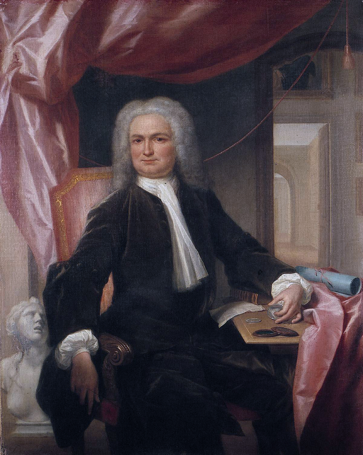 Mr. François Fagel III (1659-1746), Griffier der Staten-Generaal